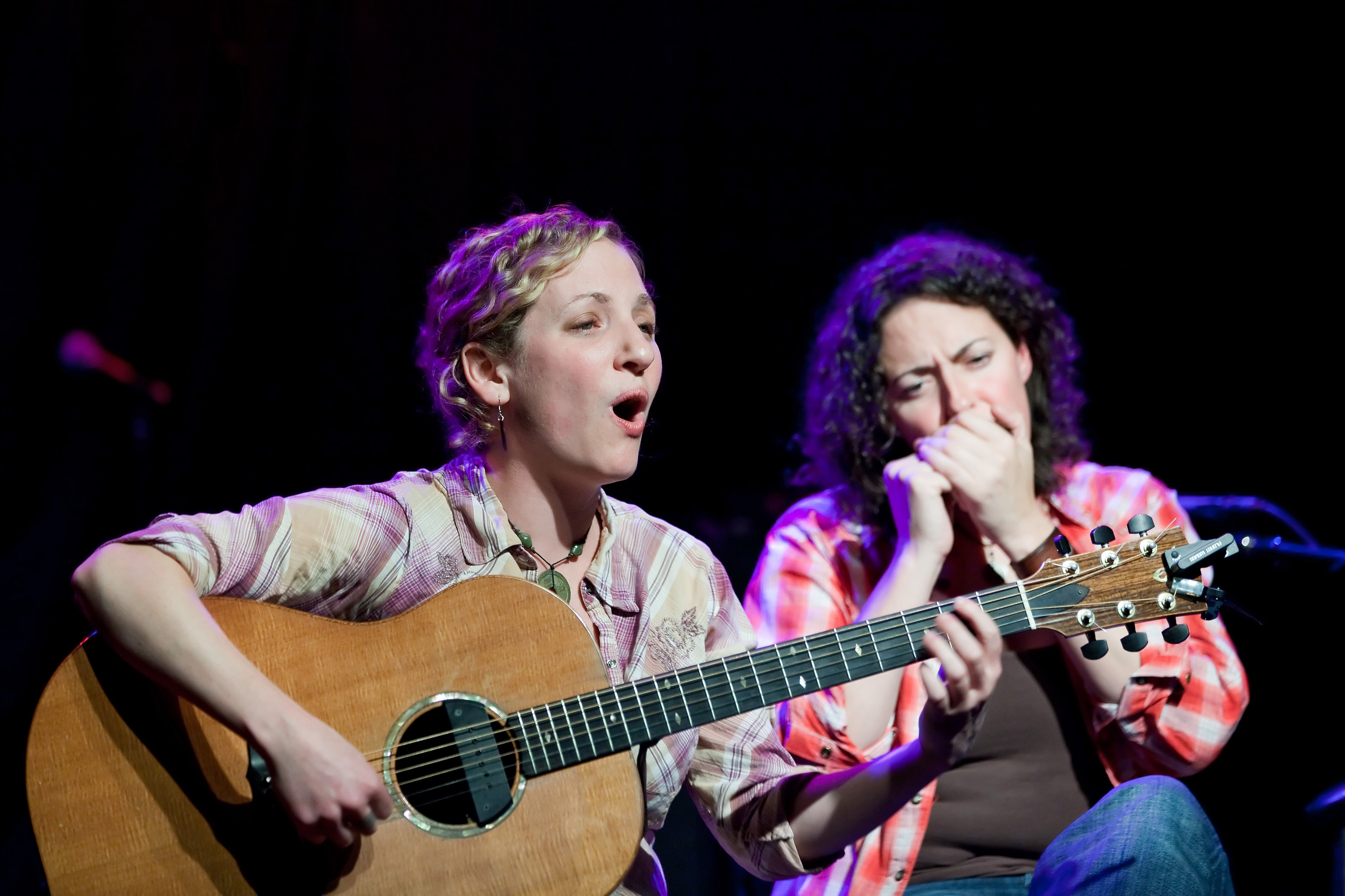 Natalia Zukerman (left) being accompanied by Trina Hamlin for a concert in Madison, Wisconsin.